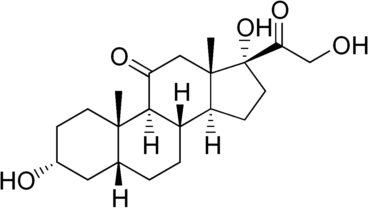 chemical structure of tetrahydrocortisone